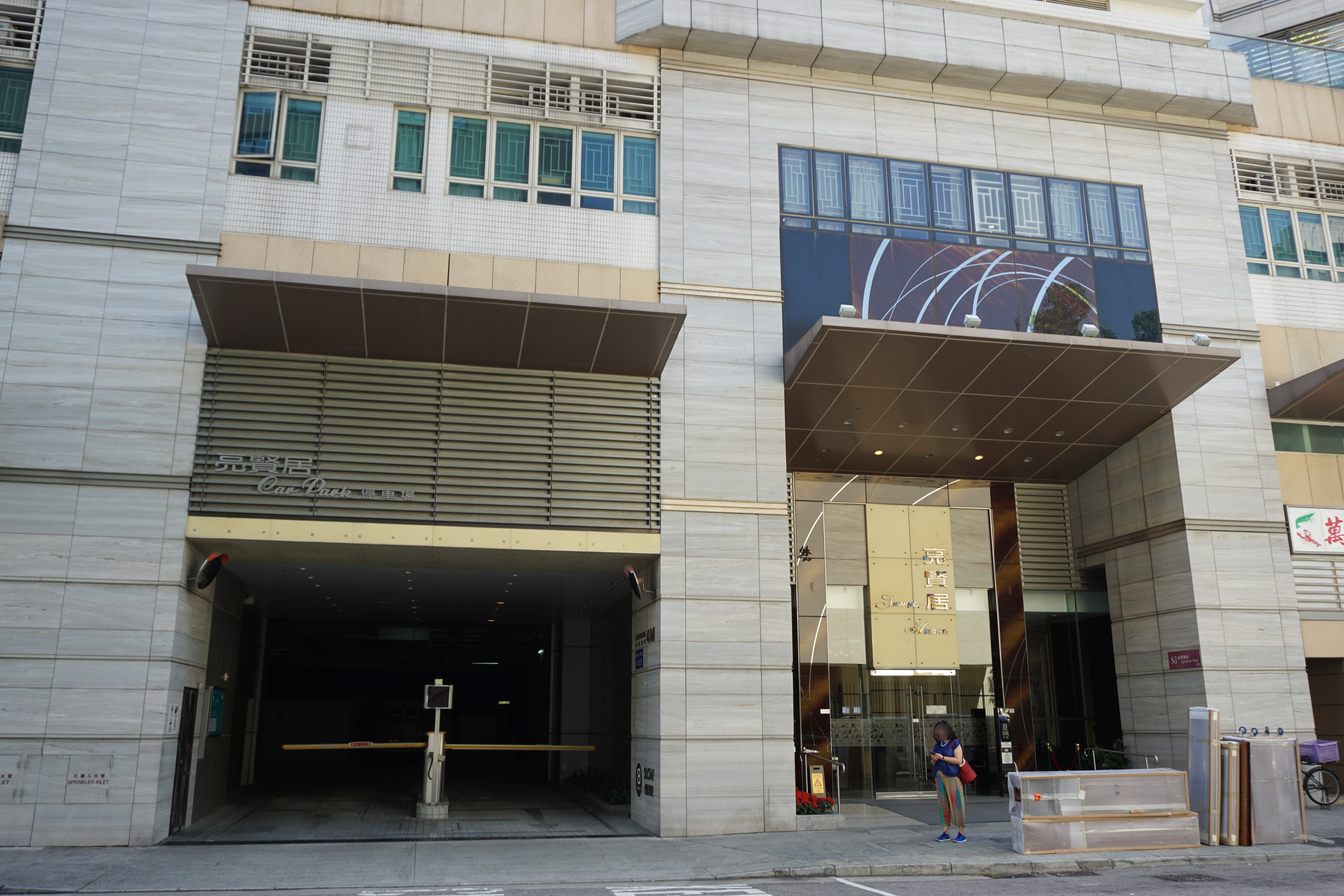 Shining Heights in Tai Kok Tsui, Hong Kong.